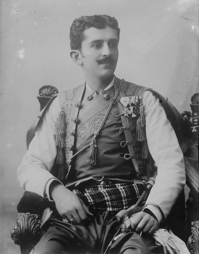 Prince Mirko of Montenegro